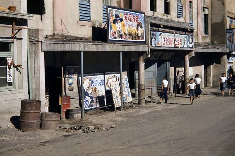 Seongnam Theatre, 1954